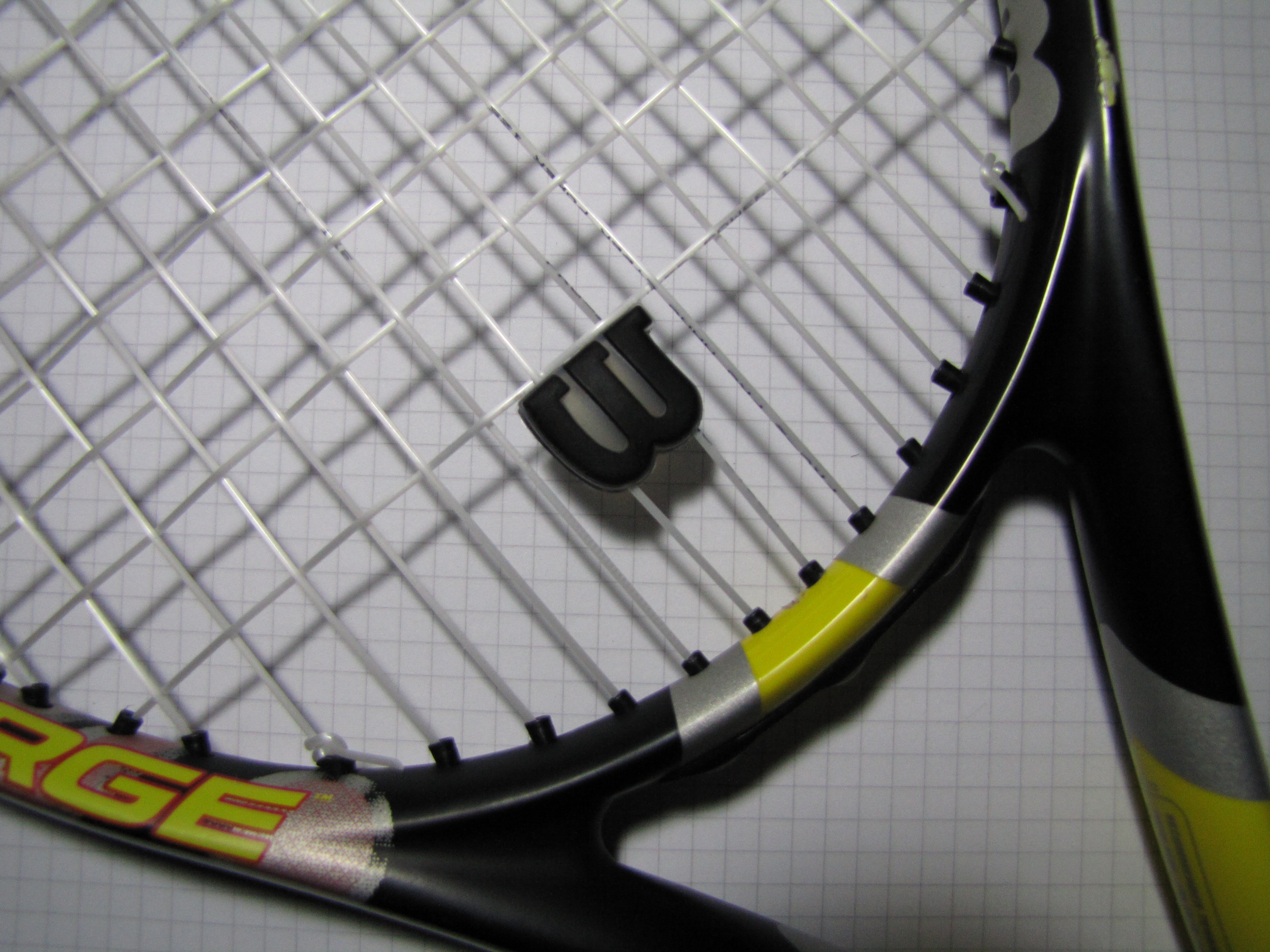 Vibration damper in the string of a tennis racket.